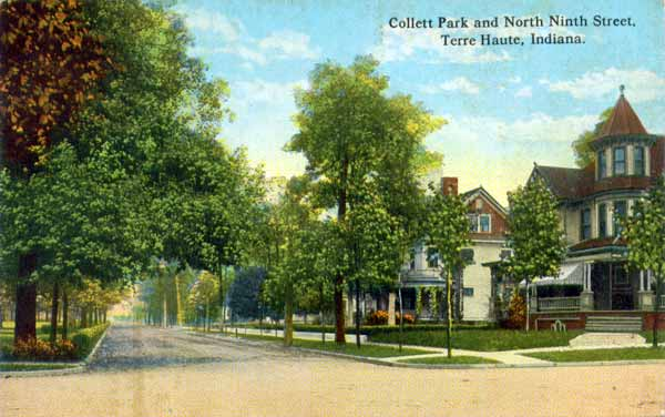 Postcard image of Collett Park Neighborhood Historic District in Terre Haute, Indiana, circa 1913. On the National Register of Historic Places in Vigo County, Indiana.